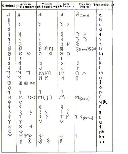 List of Etruscan alphabet.